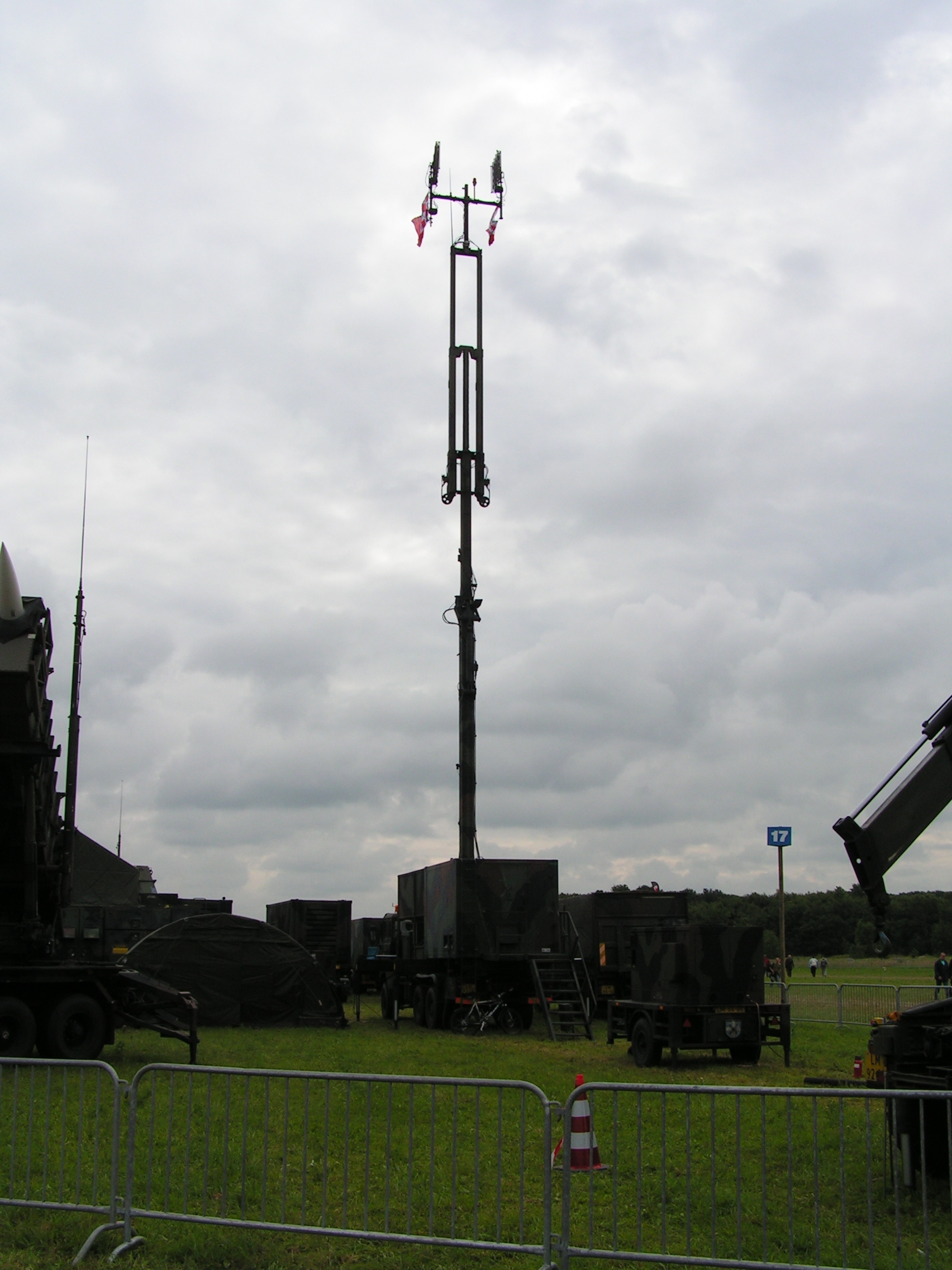 AN/MSQ-104 Engagement Control Station, part of the MIM-104 Patriot missile system.